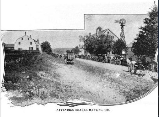 Book written by Aurelia Gay Mace